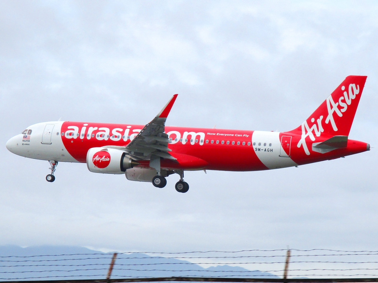 One of the AirAsia's Airbus A320neo, bearing registration code 9M-AGH is about to land at Sultan Iskandar Muda International Airport, Banda Aceh, Indonesia.